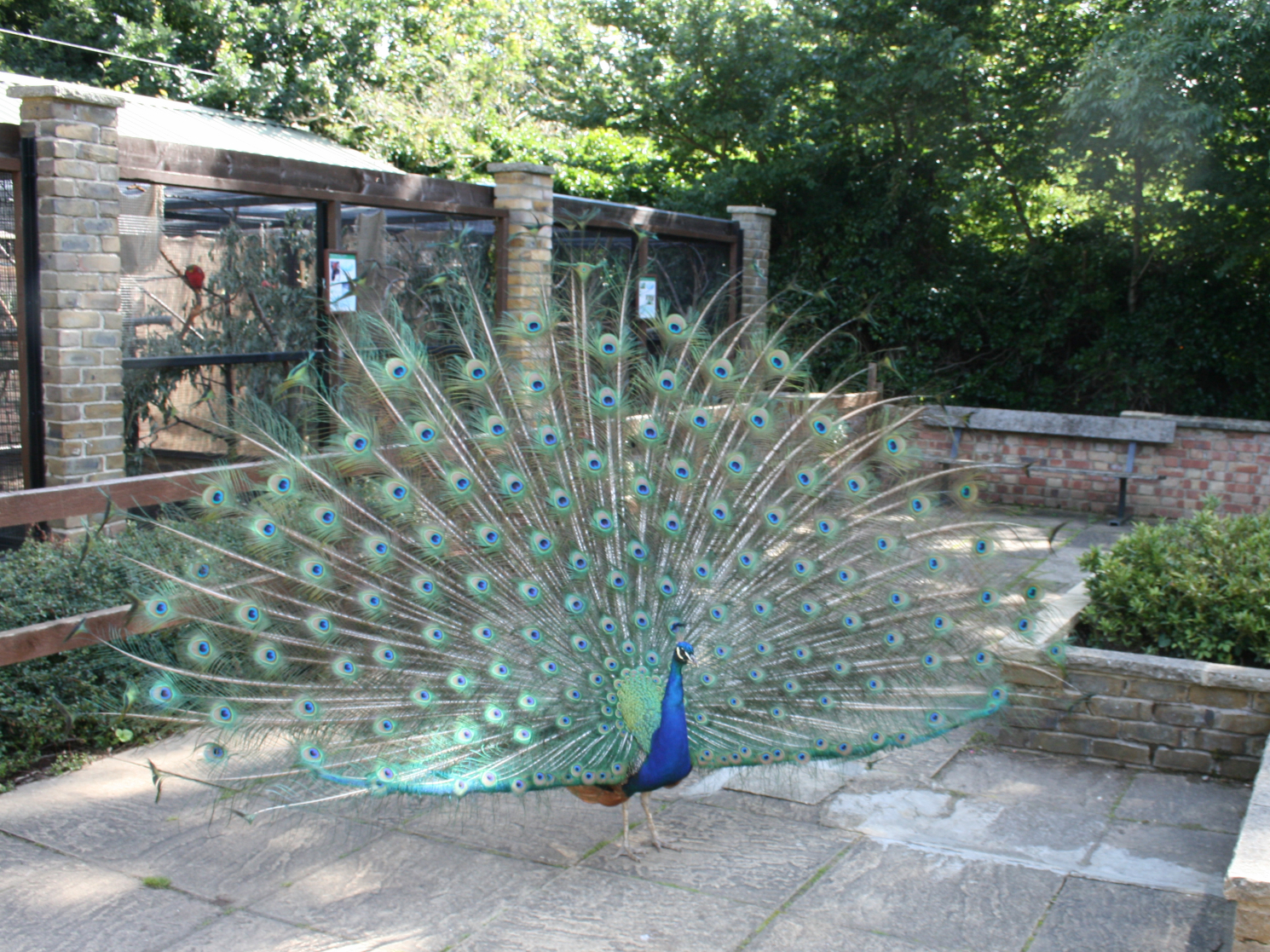 Indian Blue Peacock front view with fantail display at the Brent Lodge Park Animal Centre